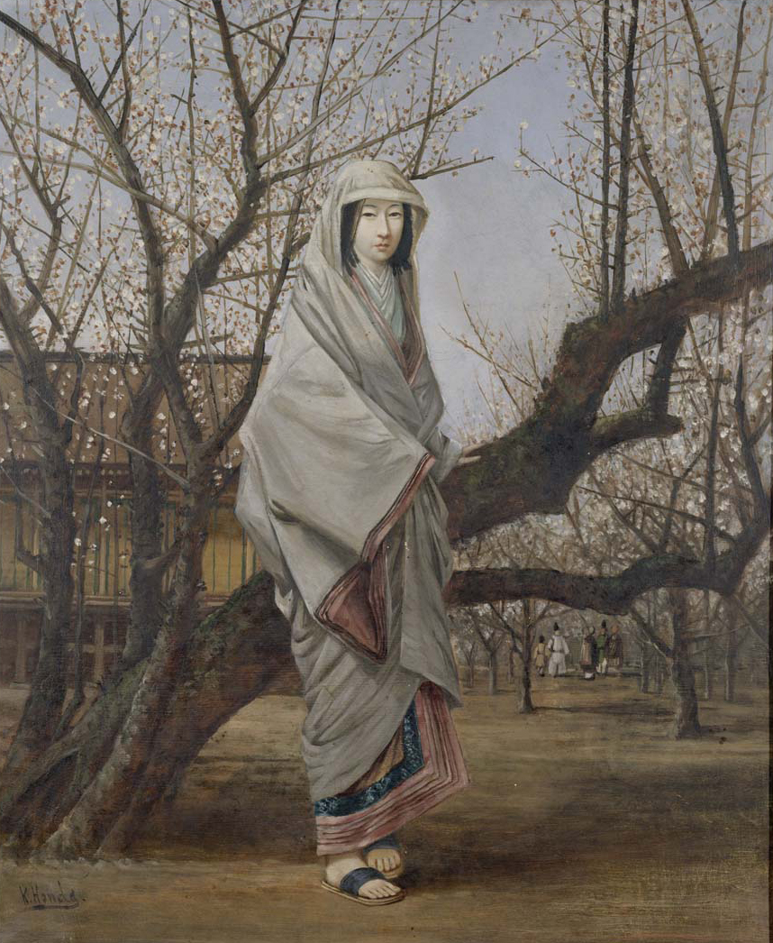 Lady and people look at Prum Flowers in winter at Japan.